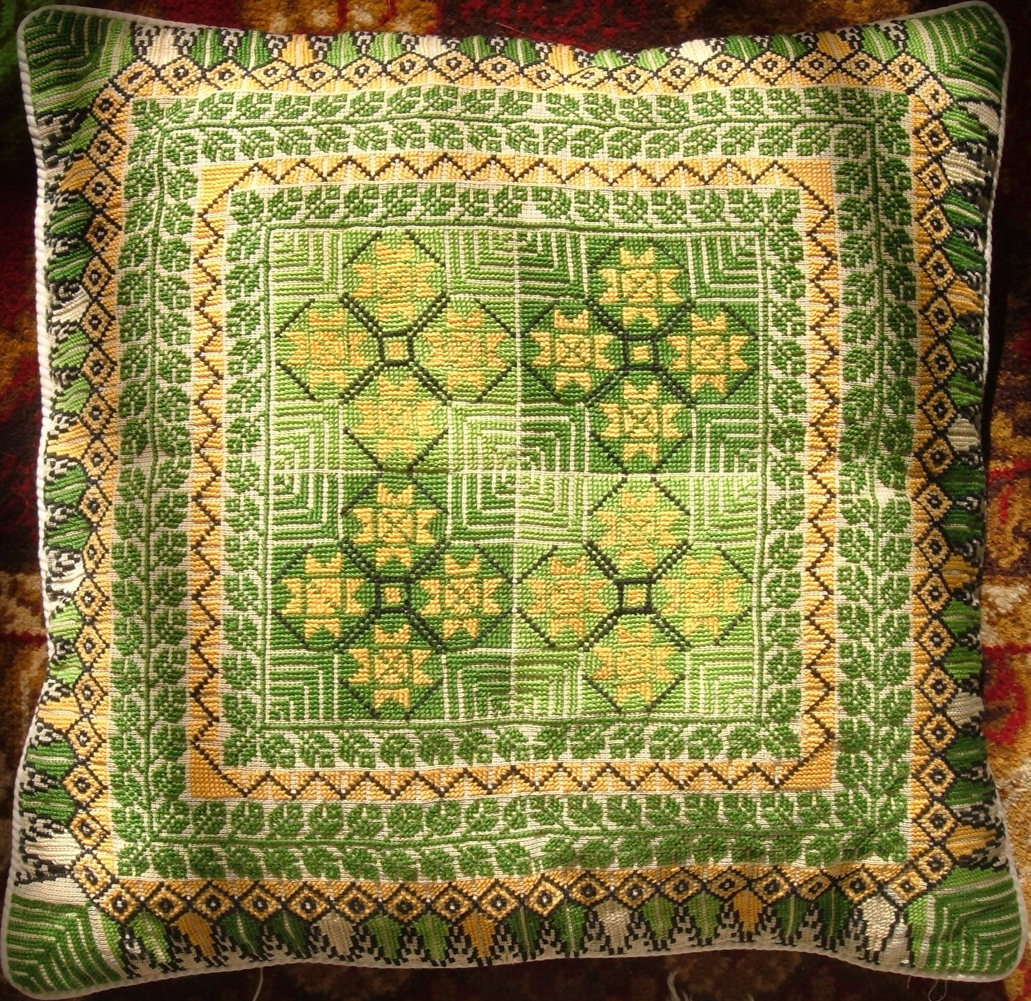 Embroidered pillowcase produced by Palestinian refugees in Jordan post-2000